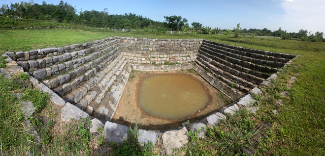 Gieng vua nha Ho